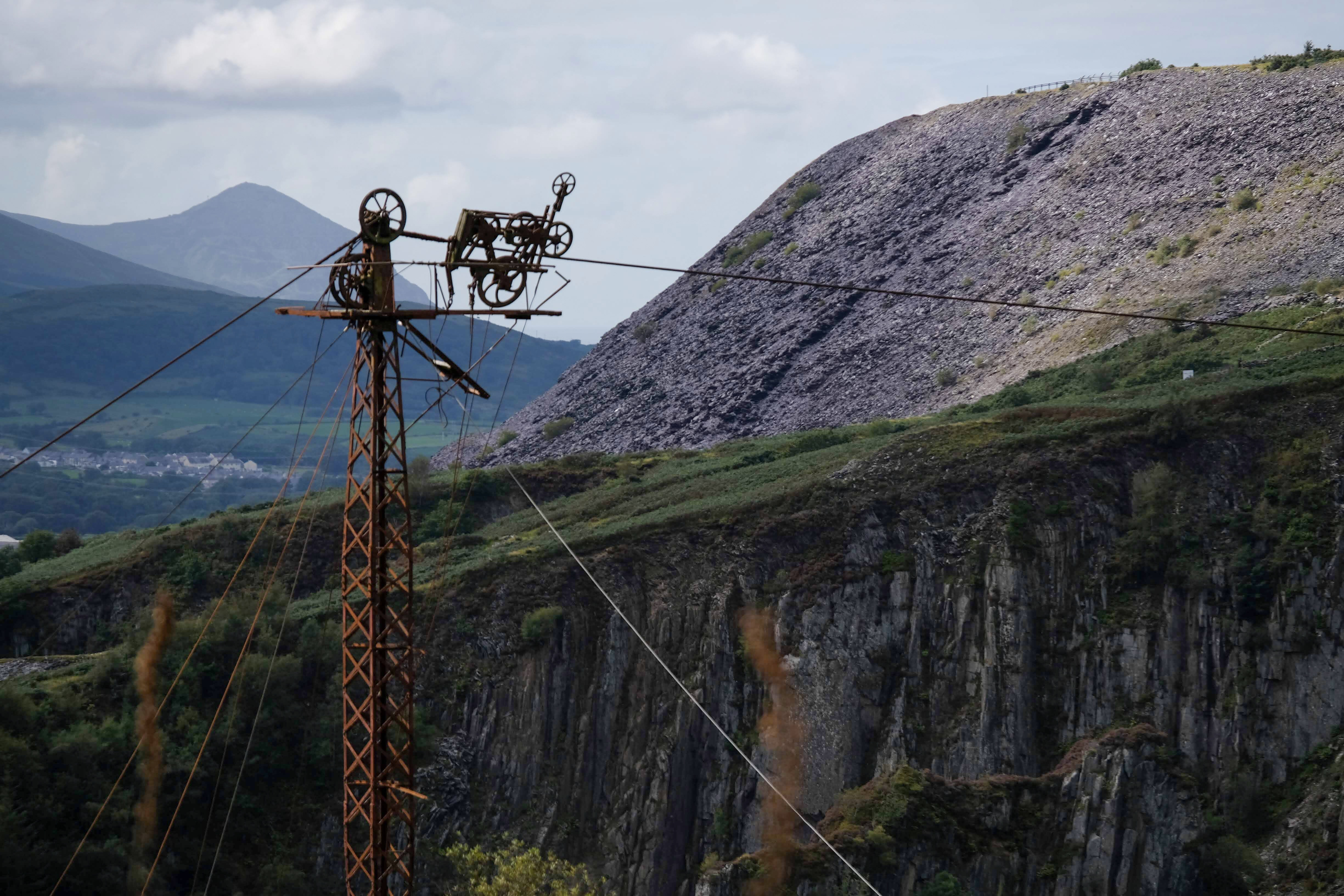 The last upright Blondin at Pen yr Orsedd Quarry, showing within it’s original environment.